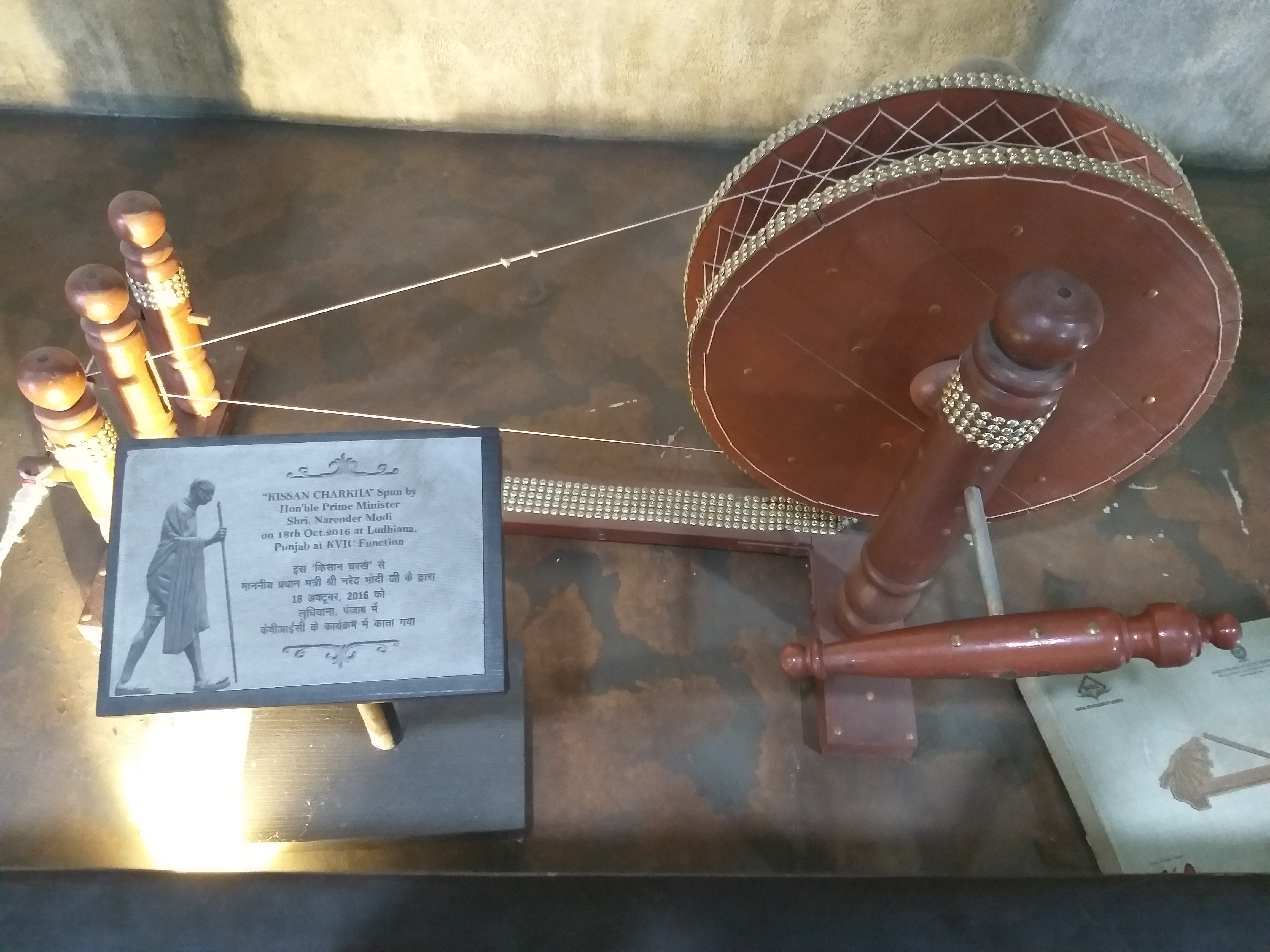 This charkha was used by Narendra Modi.